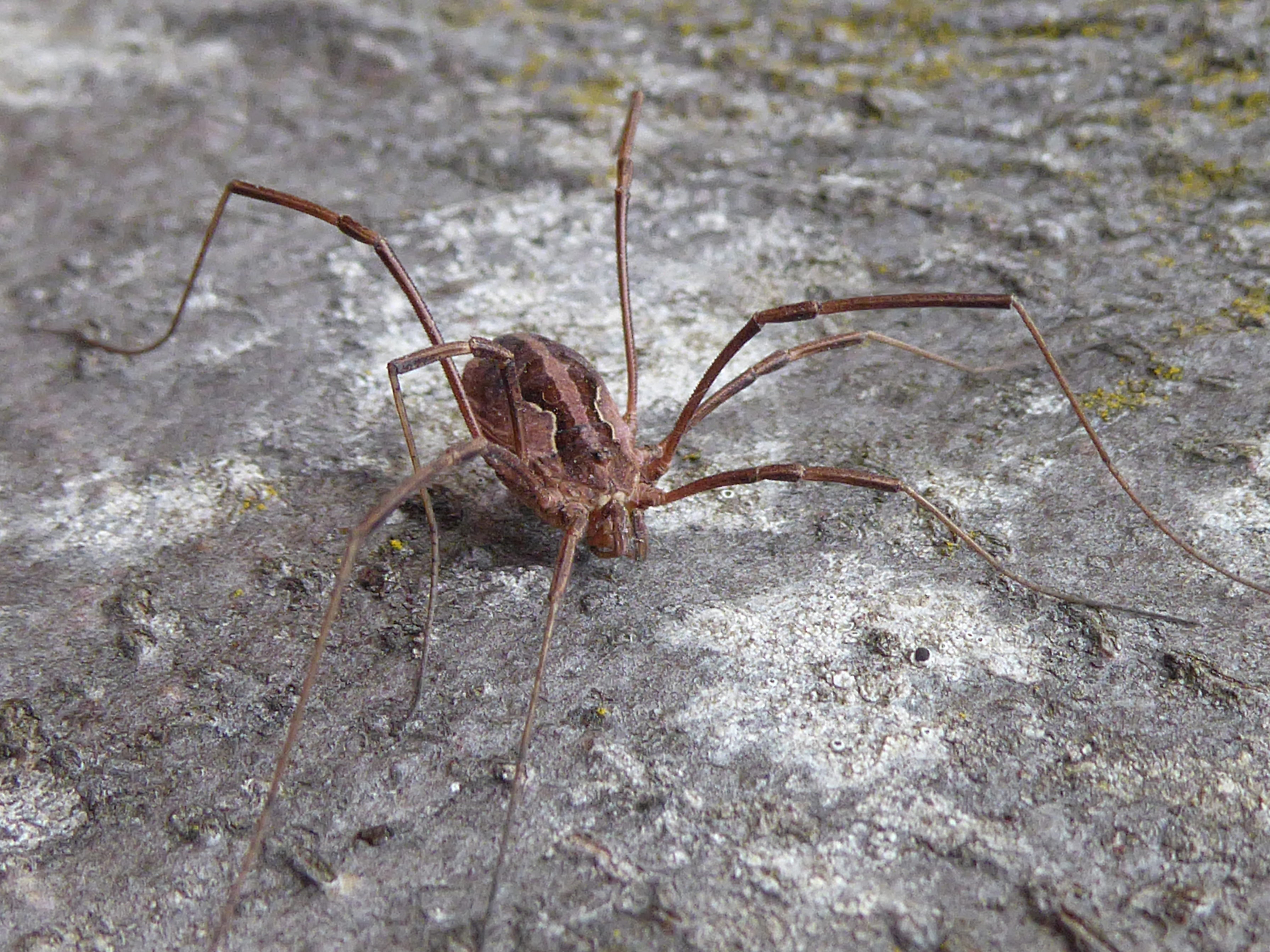 Female Mitopus morio, "alpine form", at the lake of Tovel (Trentino, Italy)